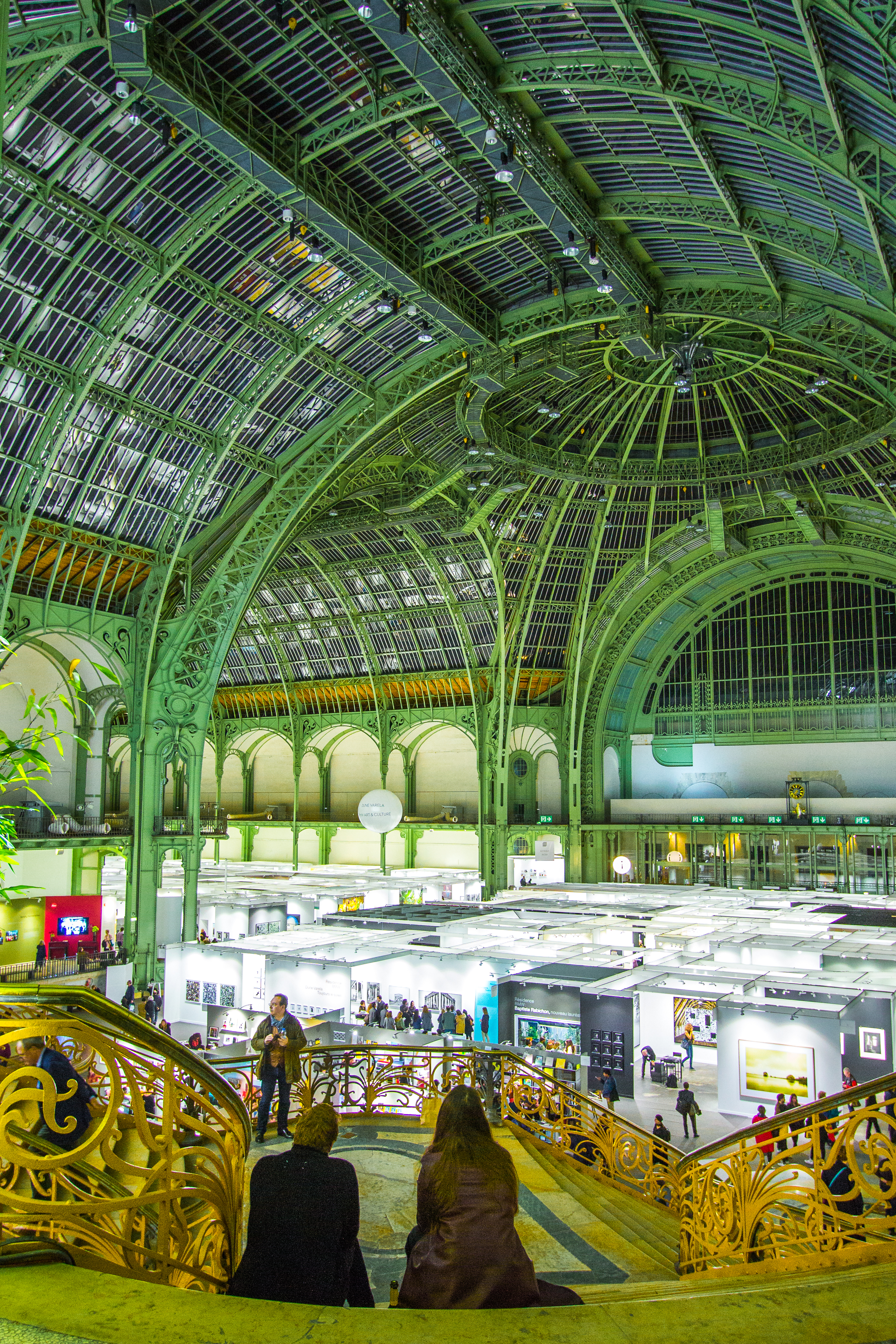 Paris photo 07